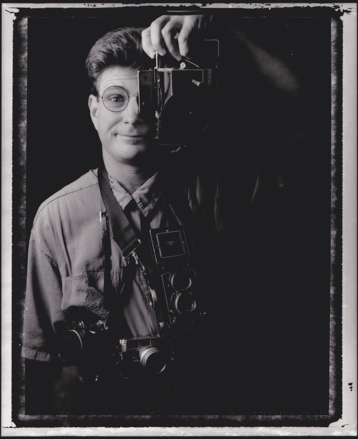 David Zeiger Self Portrait taken in the 1990s. He is a filmmaker and photographer.